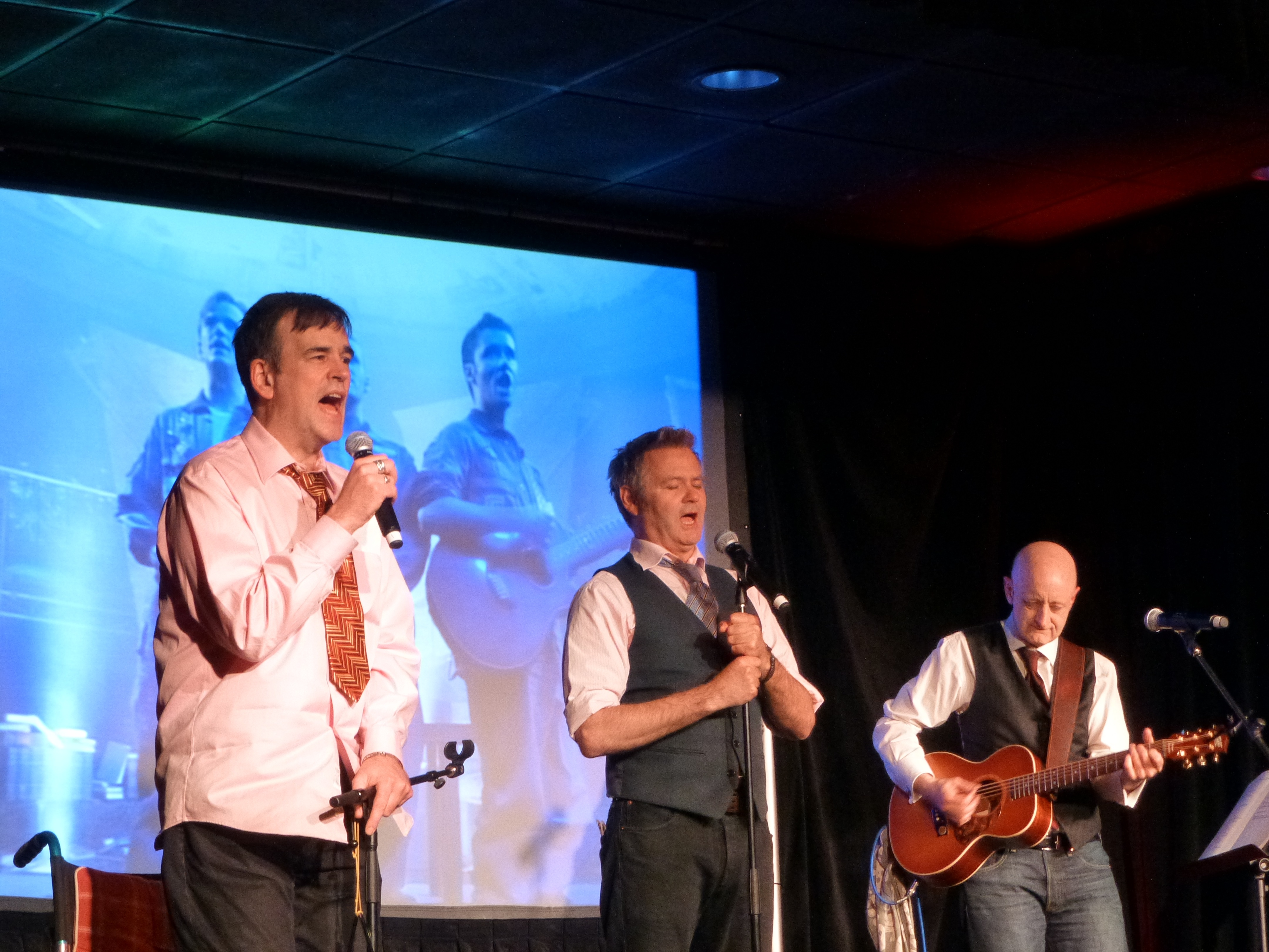 The Doug Anthony All Stars performing the song "Warsong", with a clip from the TV series DAAS Kapital projected behind.